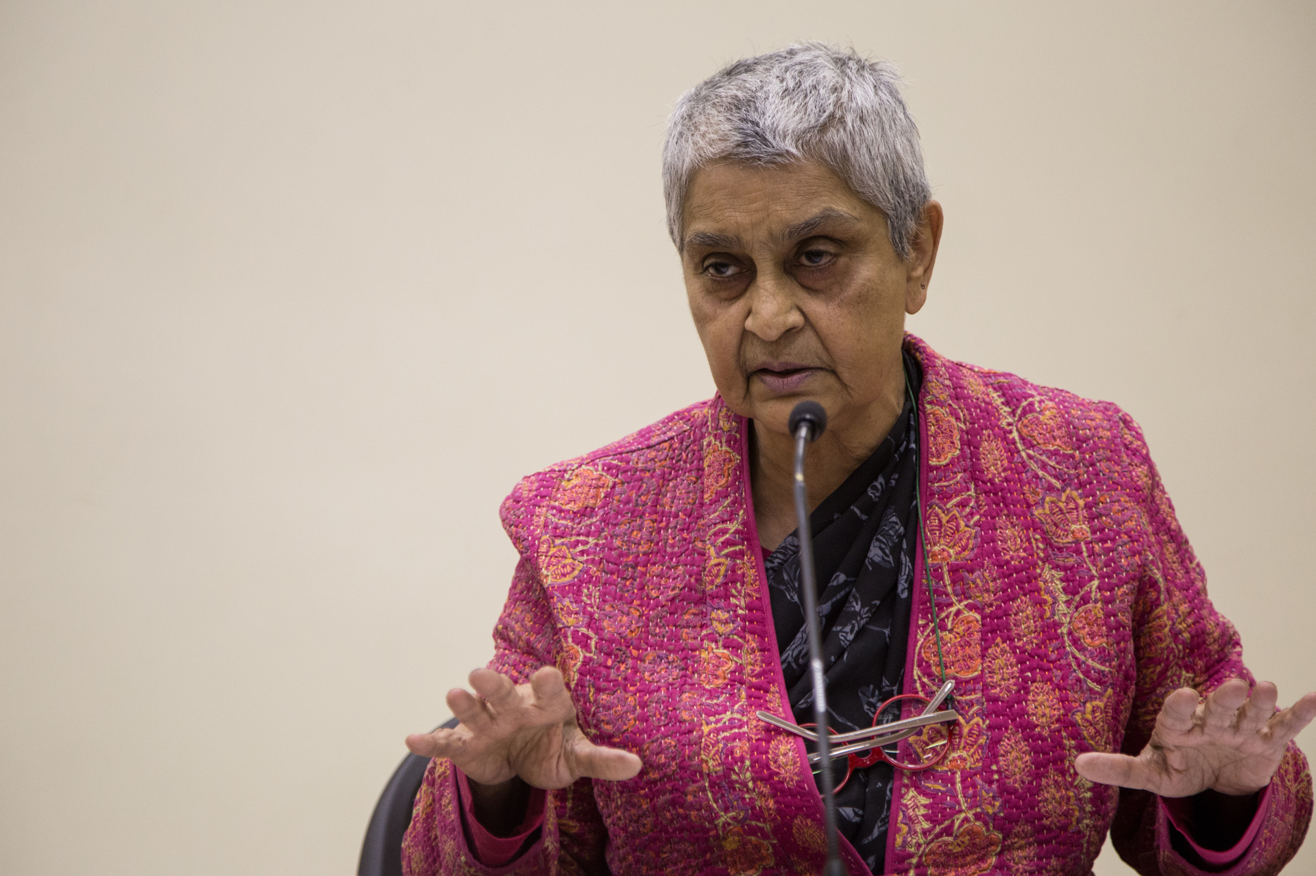 The strength of Critique: Trajectories of Marxism – Feminism Internationaler Kongress Berlin, 20.-22.3.2015